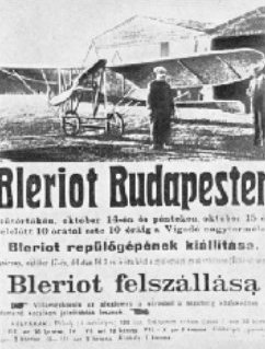 Louis Bleriot poster in Budapest